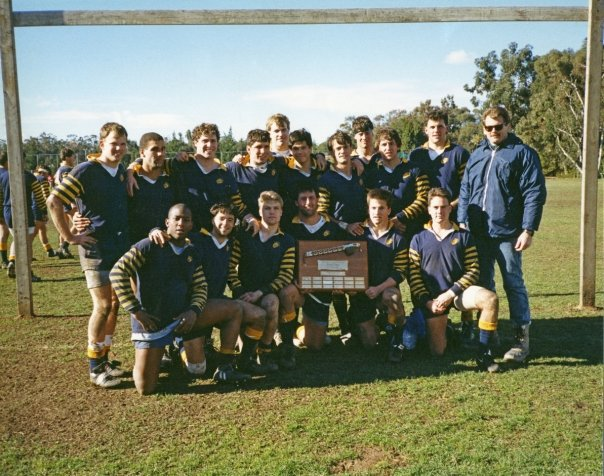 The University of California Rugby team in possession of the scrum axe.